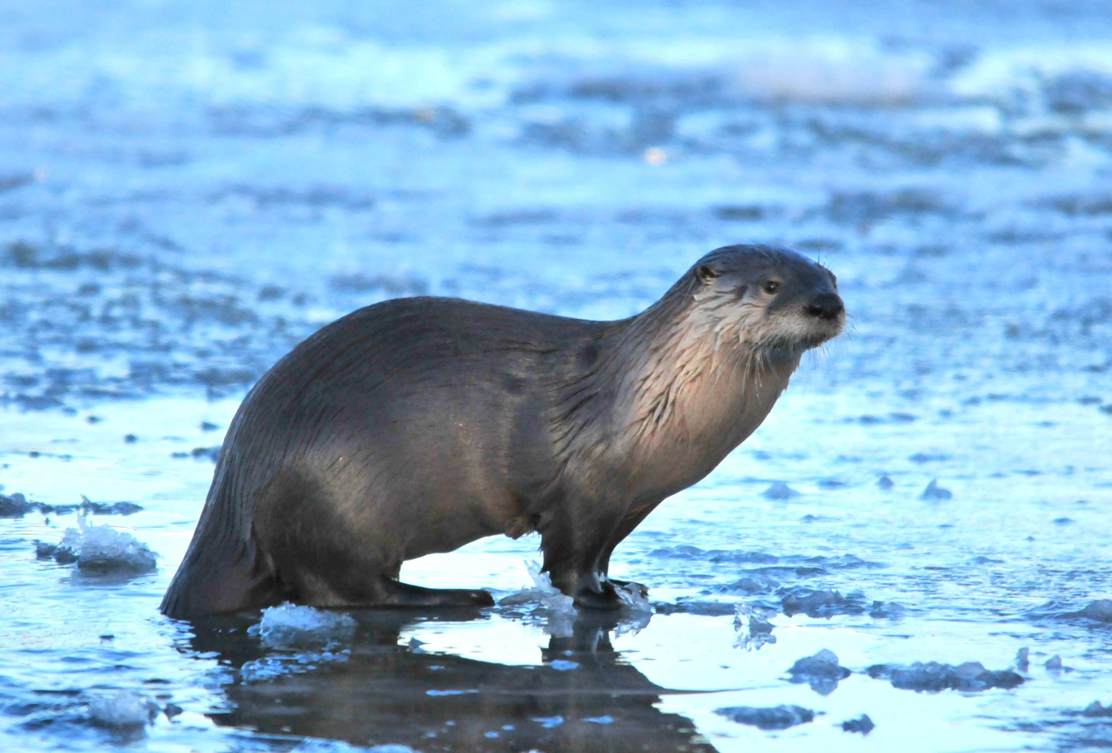 River otters were first reported on Seedskadee NWR two decades ago. Since then, their numbers have slowly increased. This river otter was spotted diving through a hole in the ice on the Green River and surfaced through the same hole minutes later. Photo: Tom Koerner/USFWS